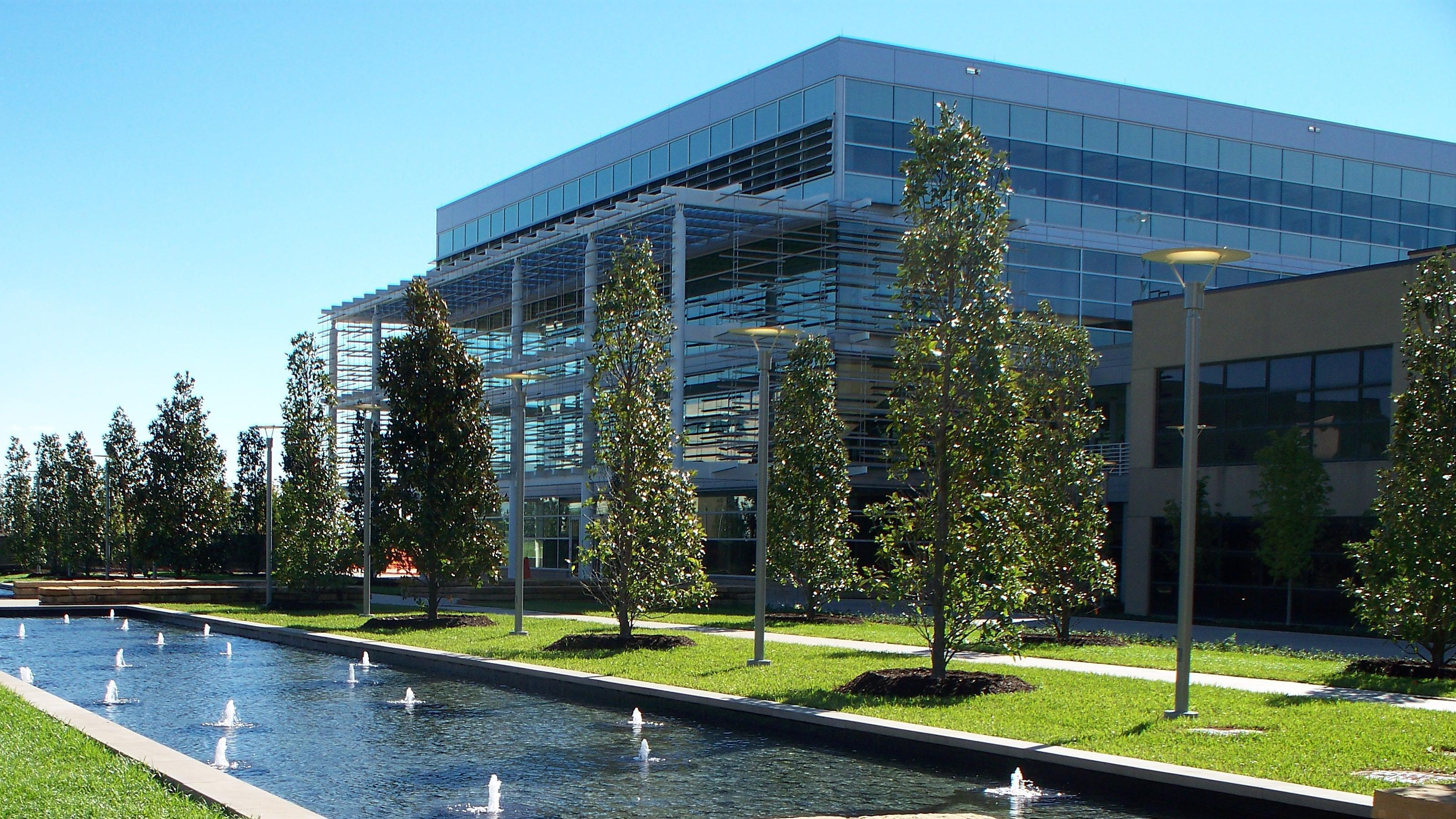 UT Dallas 74,000-square-foot (6,900 m2) Student Services Building - the first academic structure in Texas to be rated a LEED Platinum facility by the United States Green Building Council.